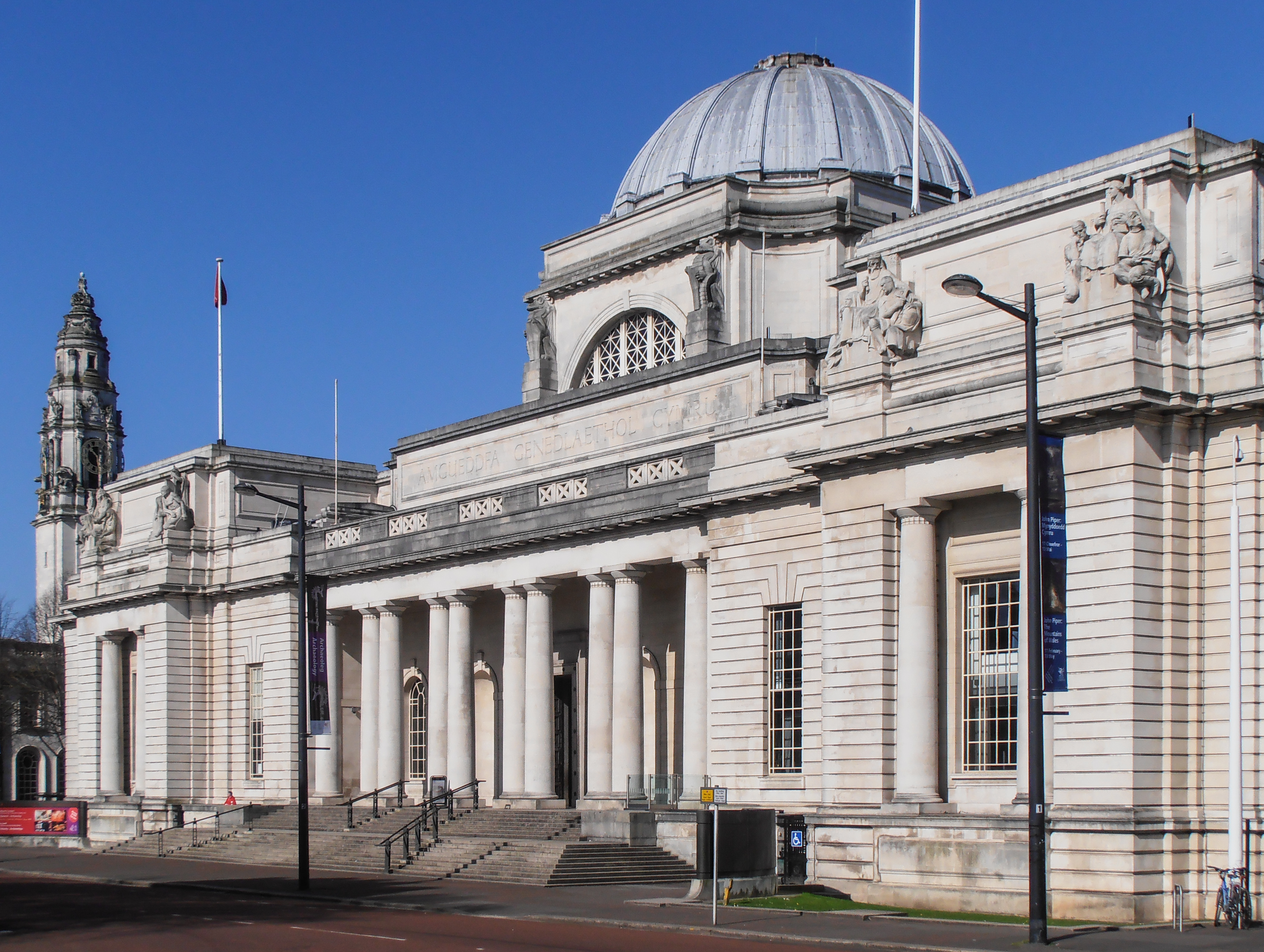 National Museum Cardiff, Cathays Park, Cardiff. Built 1913–27 to the designs of Arnold Dunbar Smith and Cecil Brewer.